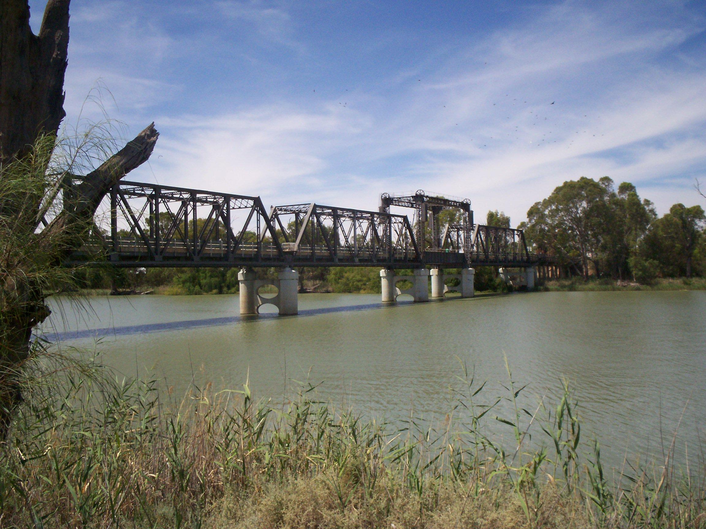 The Abbotsford Bridge, the border between Victoria and New South Wales, near Curlwaa. Photograph taken by myself, December 23, 2006 Category:Images of bridges in Australia